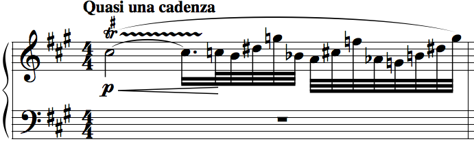 The intro to L'Isle Joyeuse, by Claude Debussy.